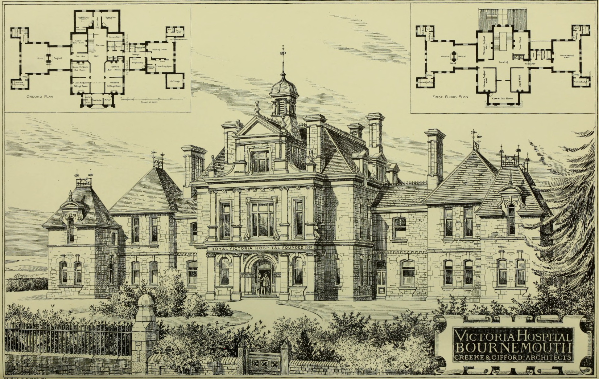 Victoria Hospital, Bournemouth, UK - line drawing